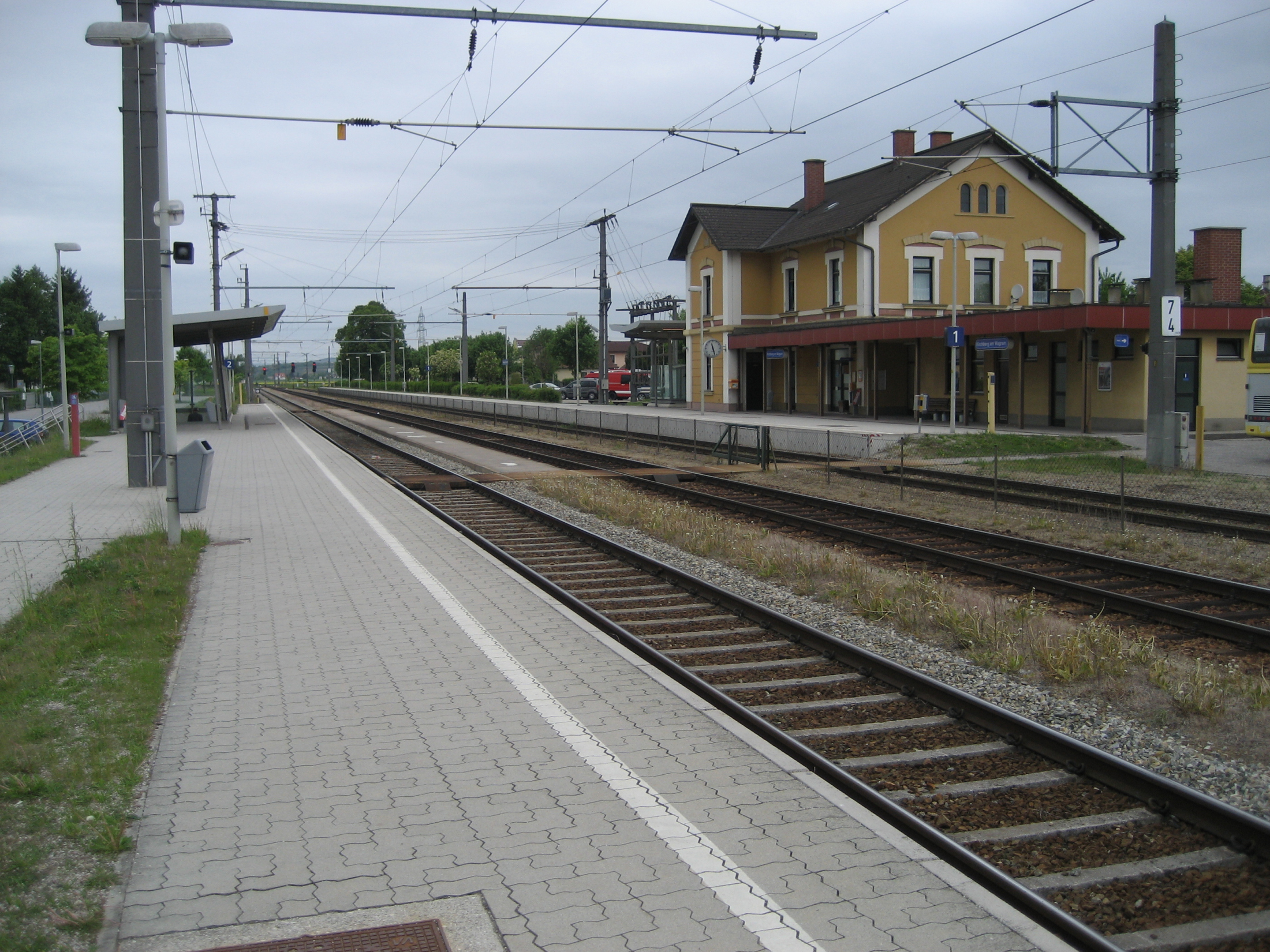 Kirchberg am Wagram train station in Lower Austria